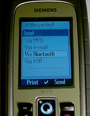 A Siemens M75 Bluejacking a Sony Ericsson K600i. Image taken and released to the public domain by User:Kallemax.